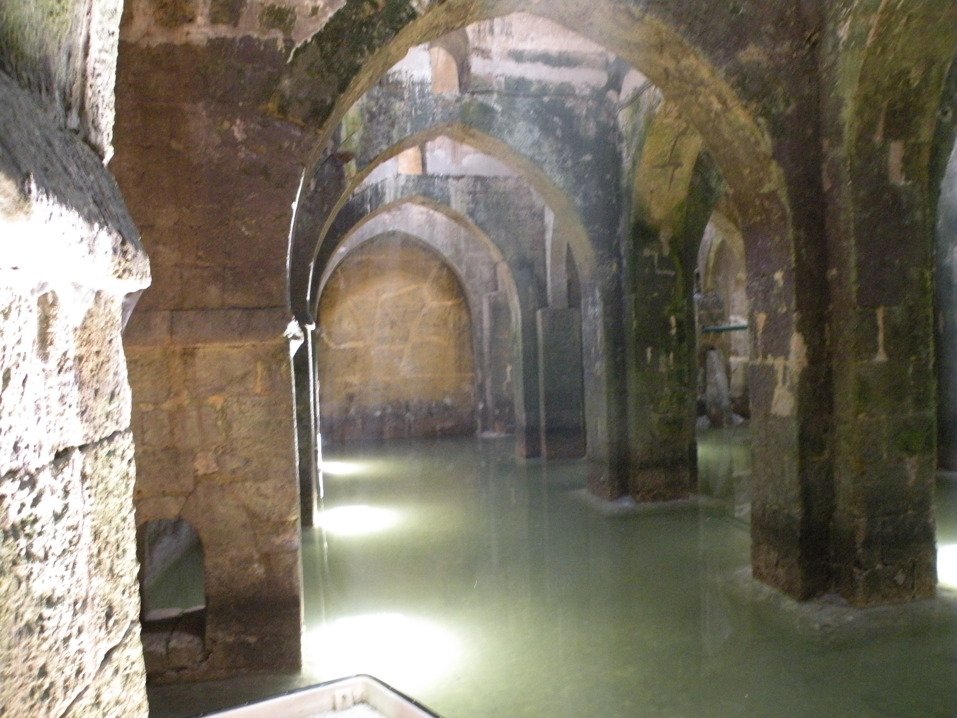 The Arcs pool in Ramla, Israel.